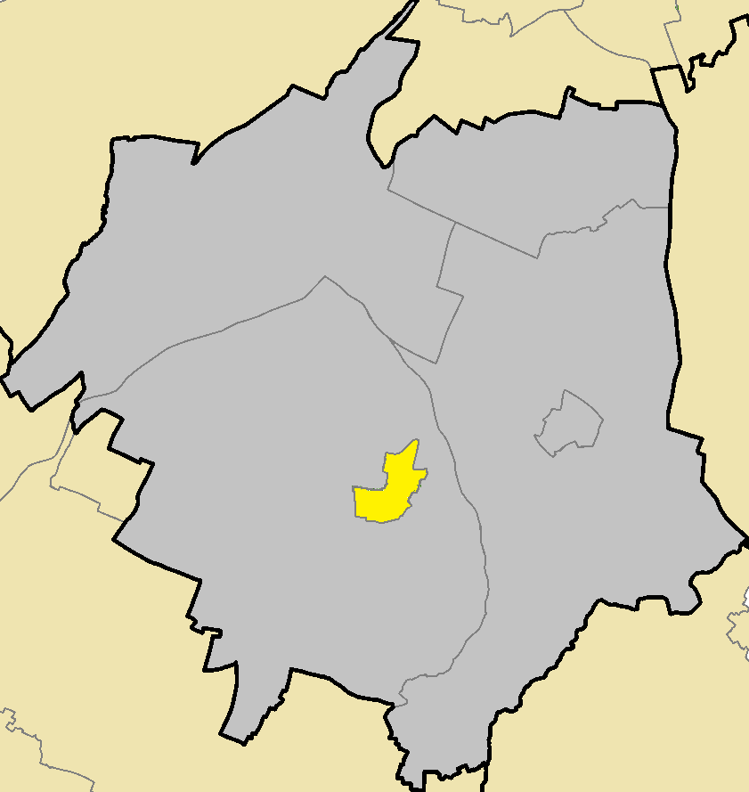 Ethnomartyras Kyprianos in Strovolos.